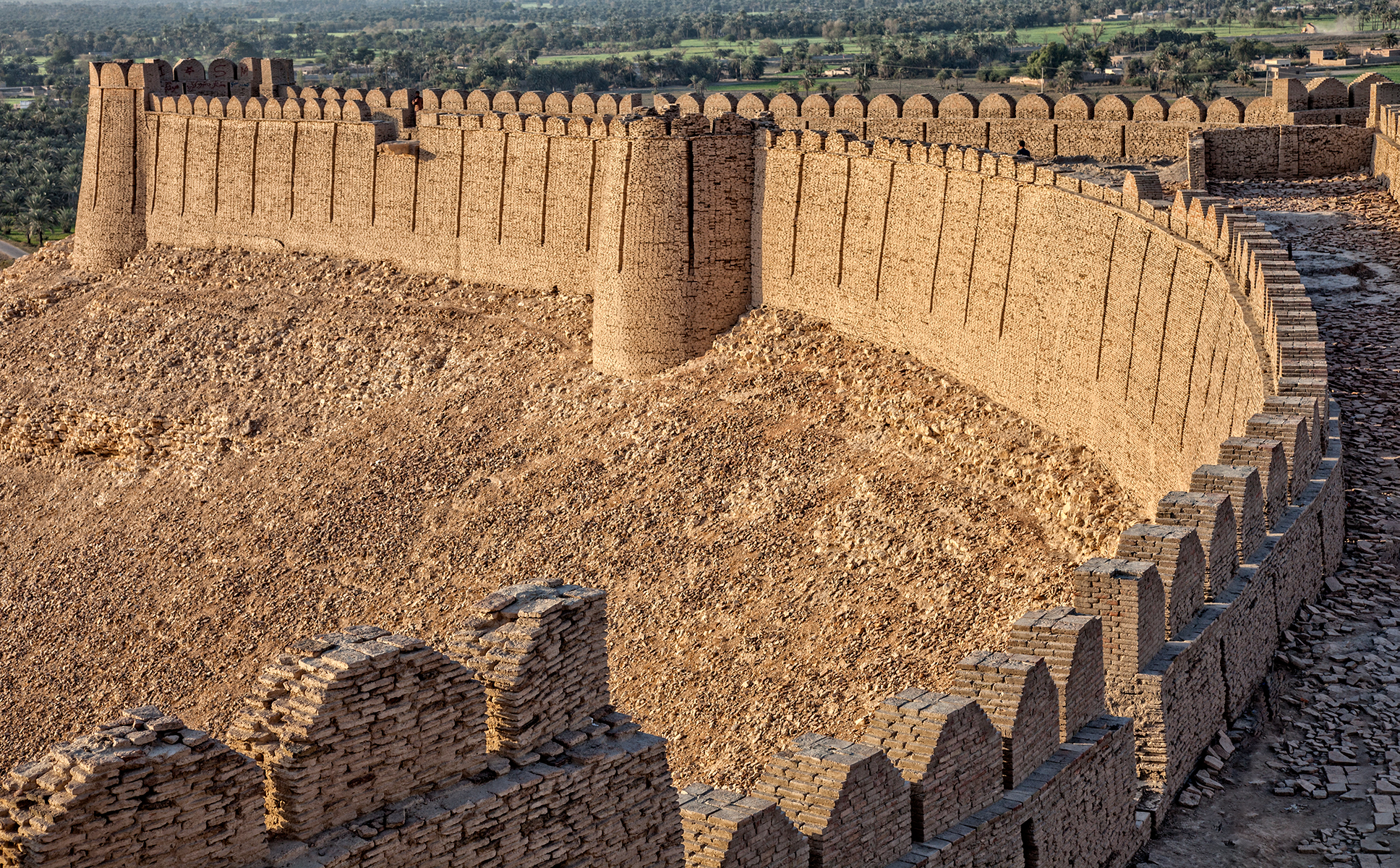 Kot Diji Fort This is a photo of a monument in Pakistan identified as the SD-38